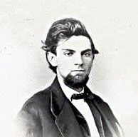 John Lewis Thomas, US Representative from Maryland